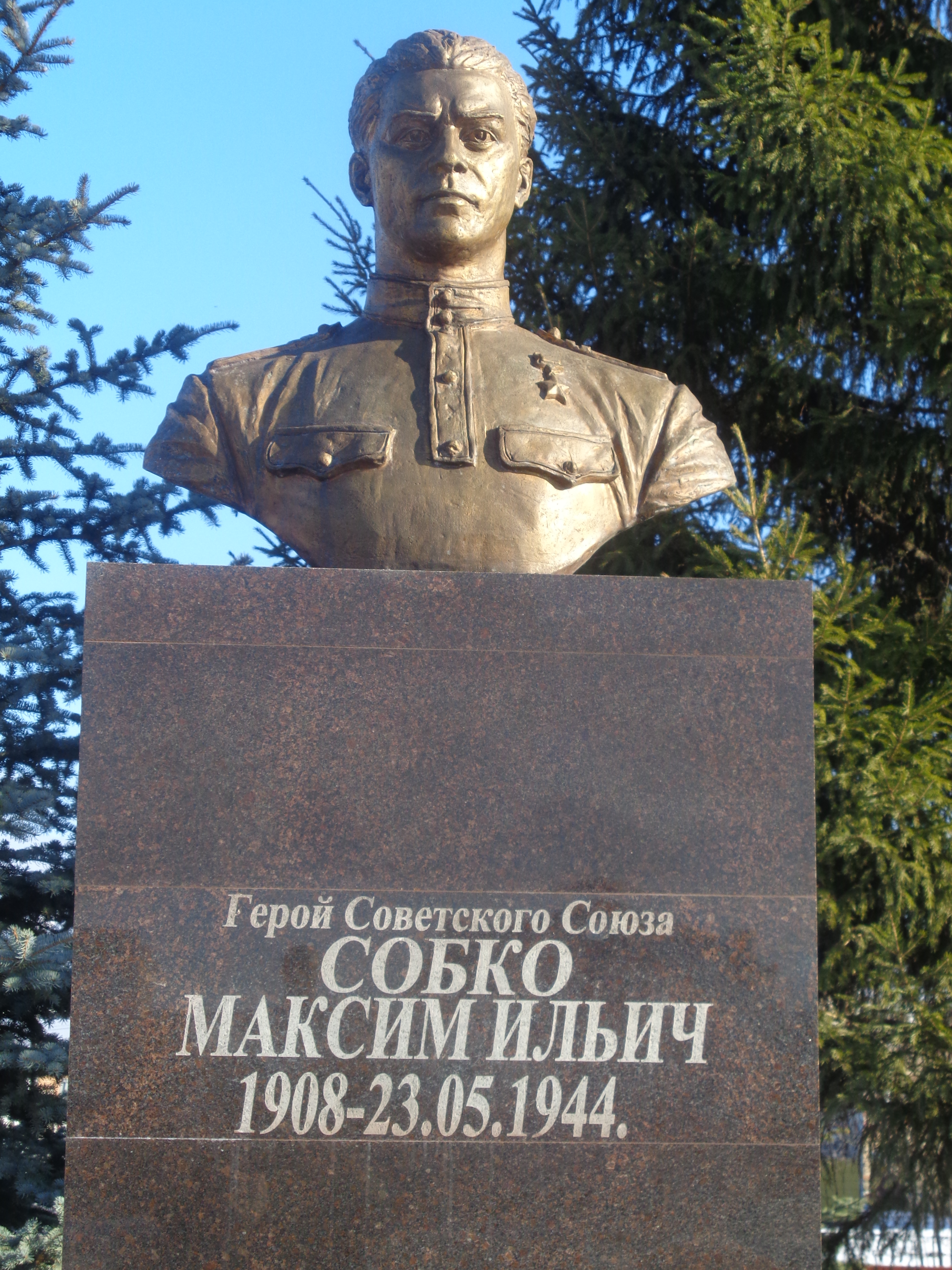 a monument to the Hero of the Soviet Union Sobko Maxim Ilyich 1